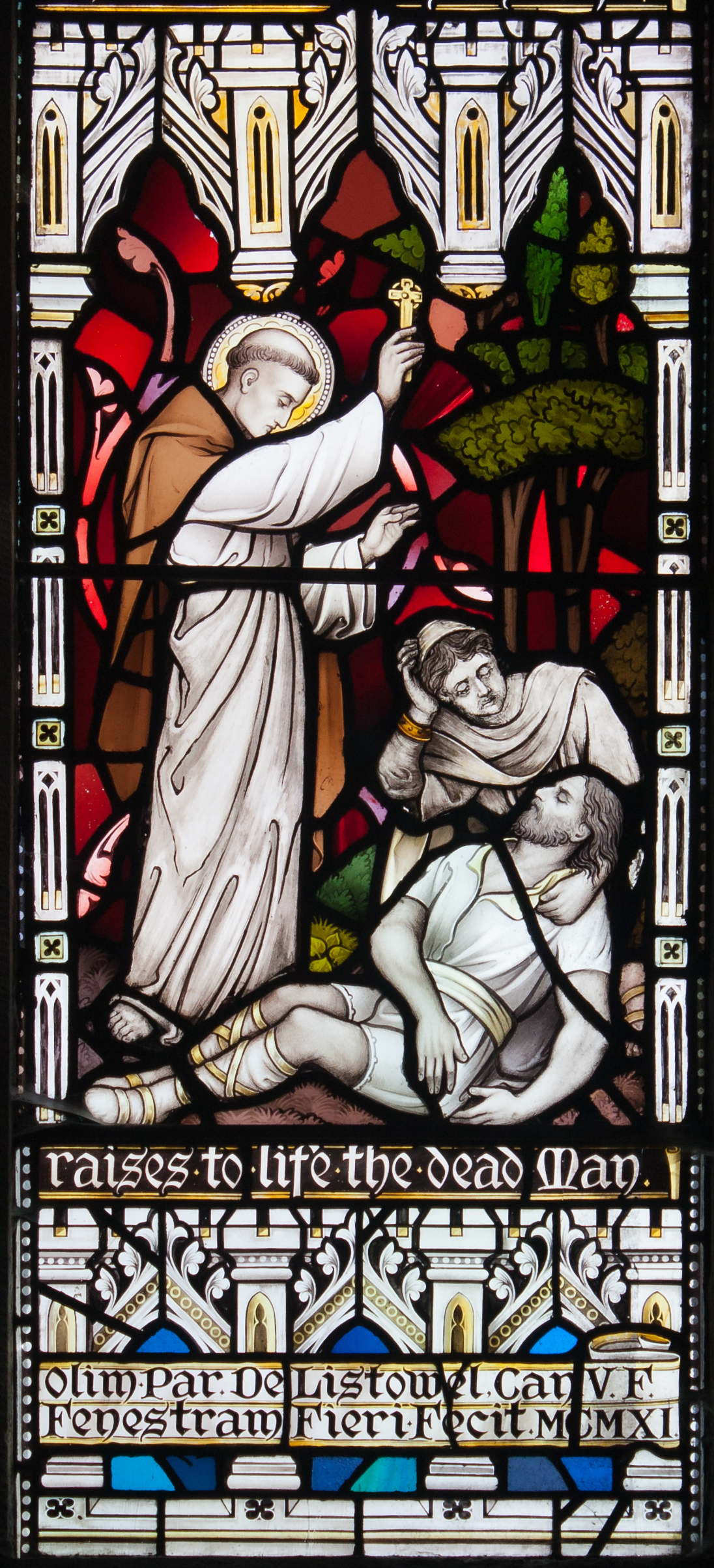 Lower section of the right light of the first window in the south aisle, depicting the right part of St Brendan by the Power of God raises to life the dead Man. This is based on the Irish Life of St. Brendan § 24. In the translation by Charles Plummer: As then they were traversing Magh Ai, they saw a bier, and a dead man on it, and his friends keening him. ‘Trust in the Lord,’ said Brendan, ‘and the man whom you carry shall revive.’ After he had prayed, the man arose, and his company took him with them with exceeding joy. The right part of this scene shown in this photograph depicts St. Brendan (left) and the dead man along with one of his friends.